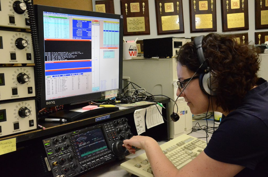 MCARC Field Day 2014 231